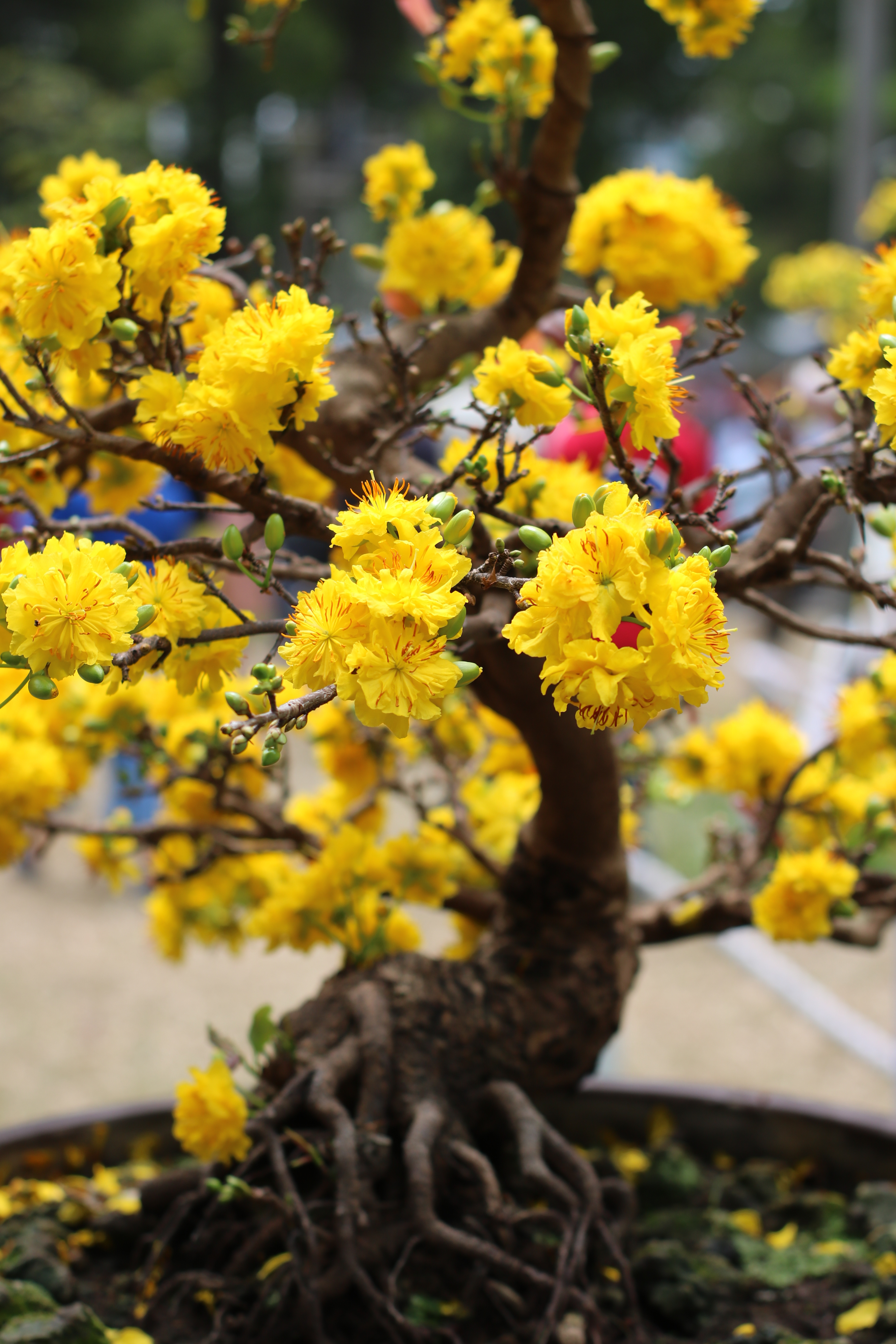 Ochna integerrima